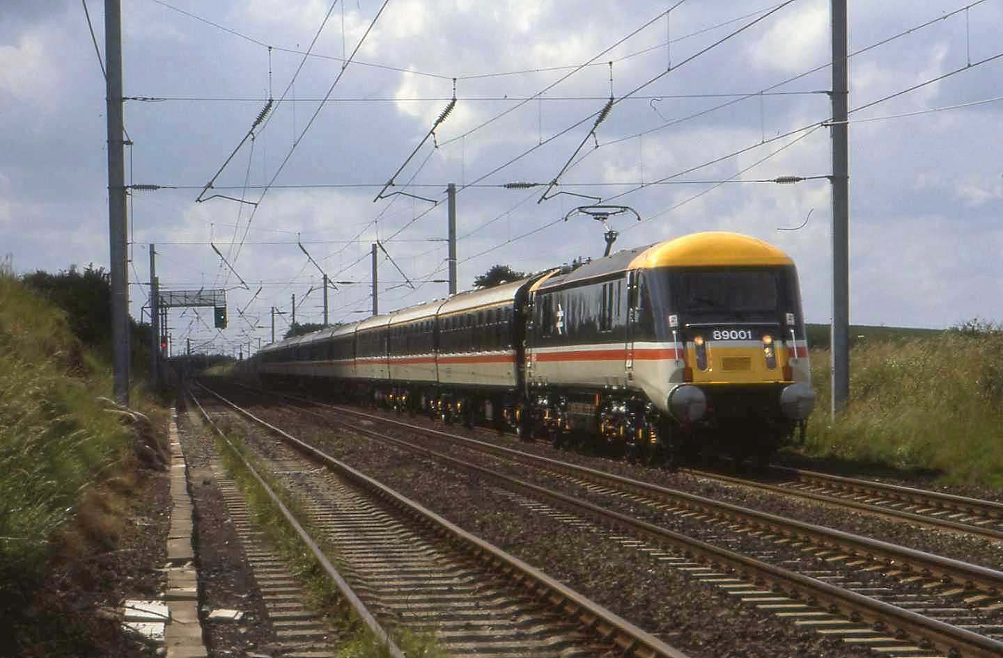 InterCity Sector-liveried 89001 at Eaton Crossing (a foot crossing on the East Coast Main Line, just to the south of Retford).